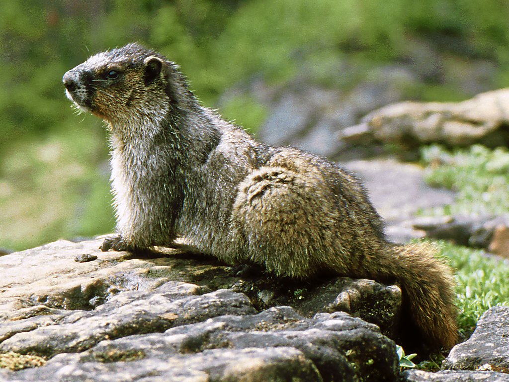 Hoary Marmot in Mount Robson Provincial Park, British Columbia